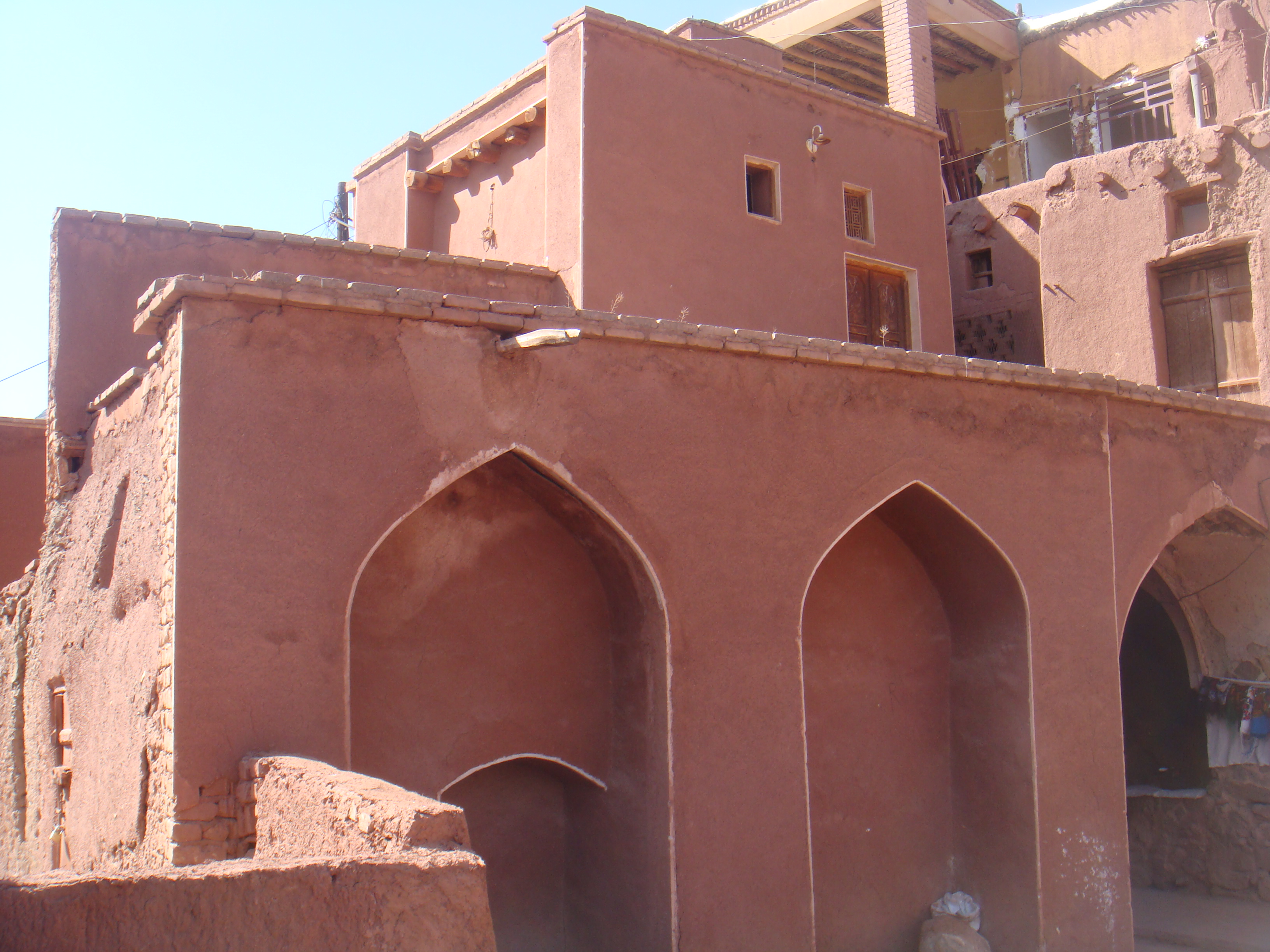 Harpak Fire Temple in Abyaneh (today)